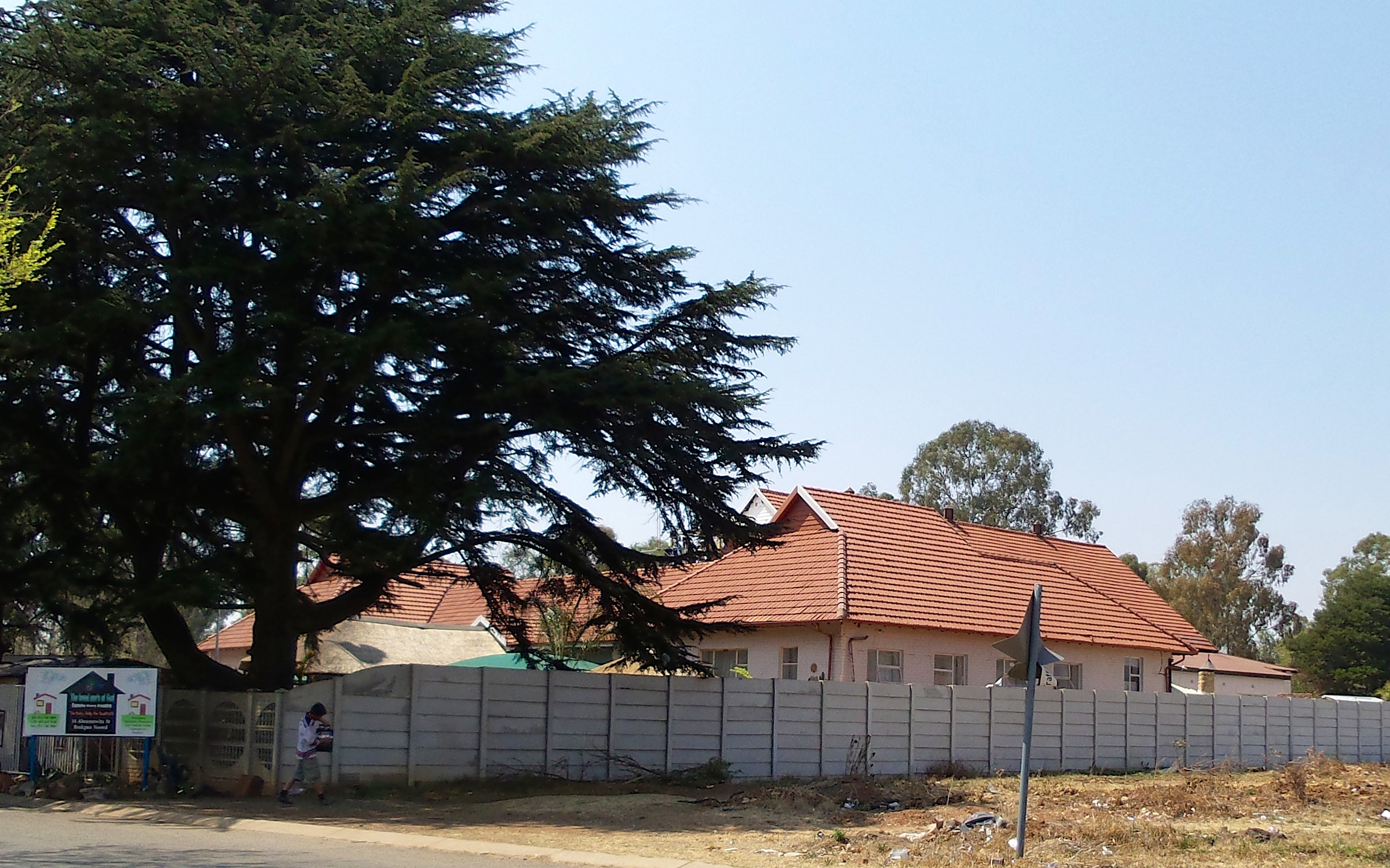 Pentecost Protestant Church, Abrahamowitz Street, Brakpan This media shows a South African Protected Site with SAHRA file reference 9/2/211/0001.